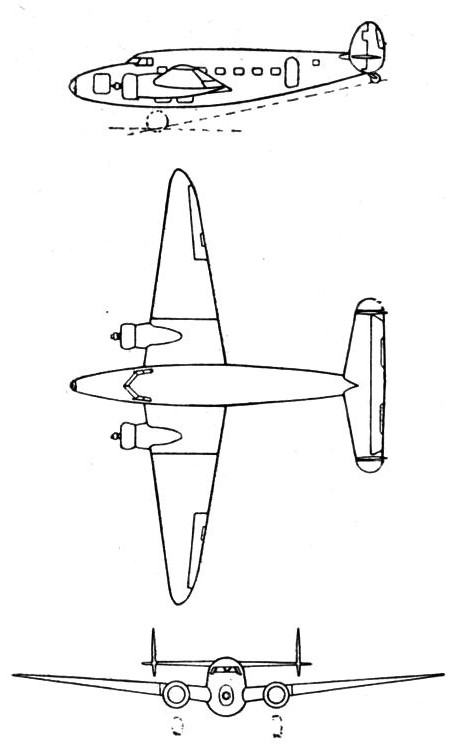 Lockheed Lodestar 3-view L'Aerophile January 1940